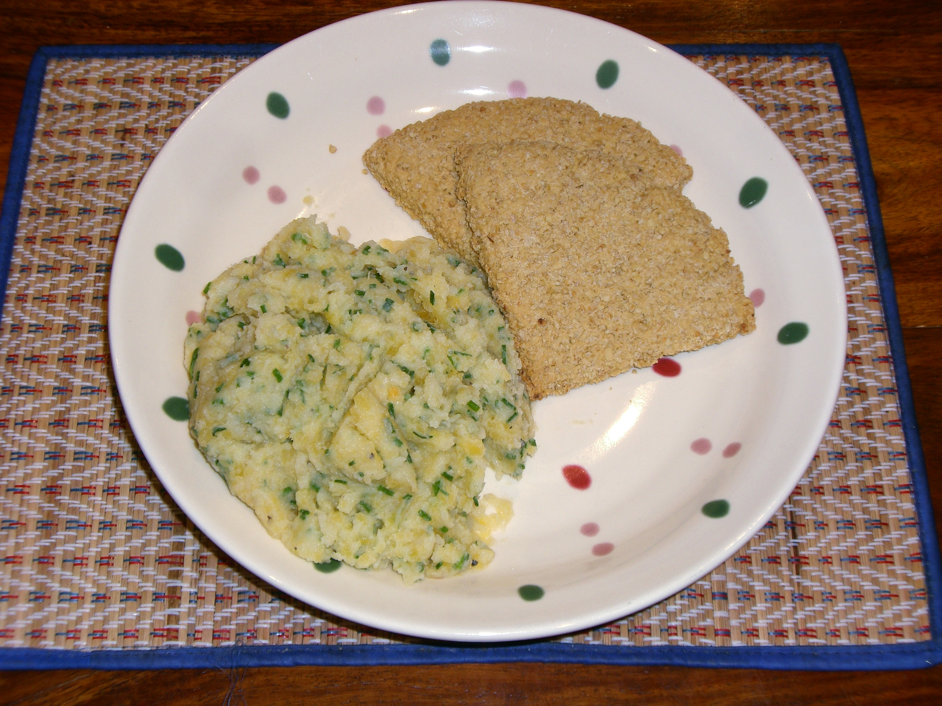 A plate of clapshot and oatcakes.